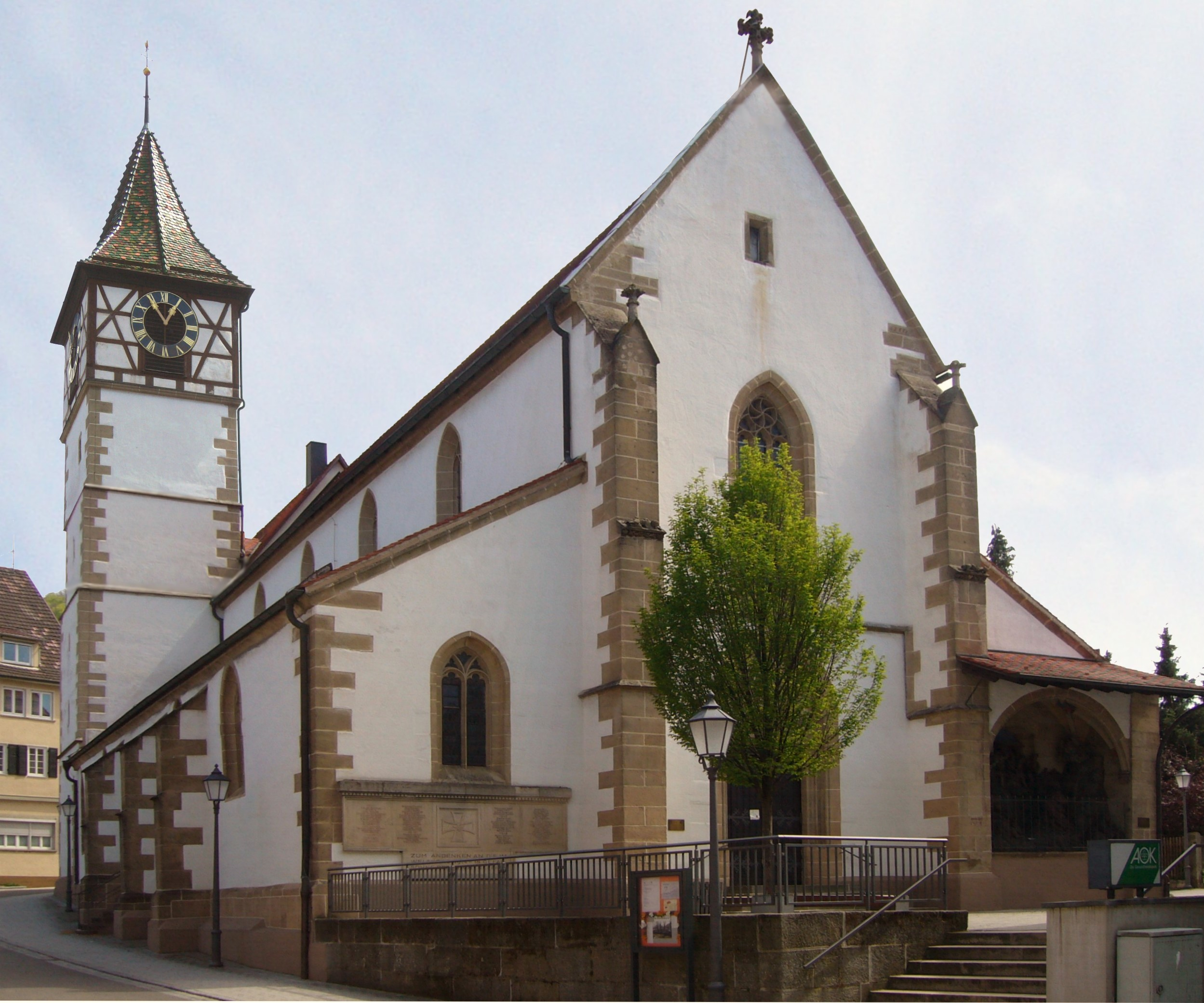 Church St. Martin in Neuffen, Germany, West Side